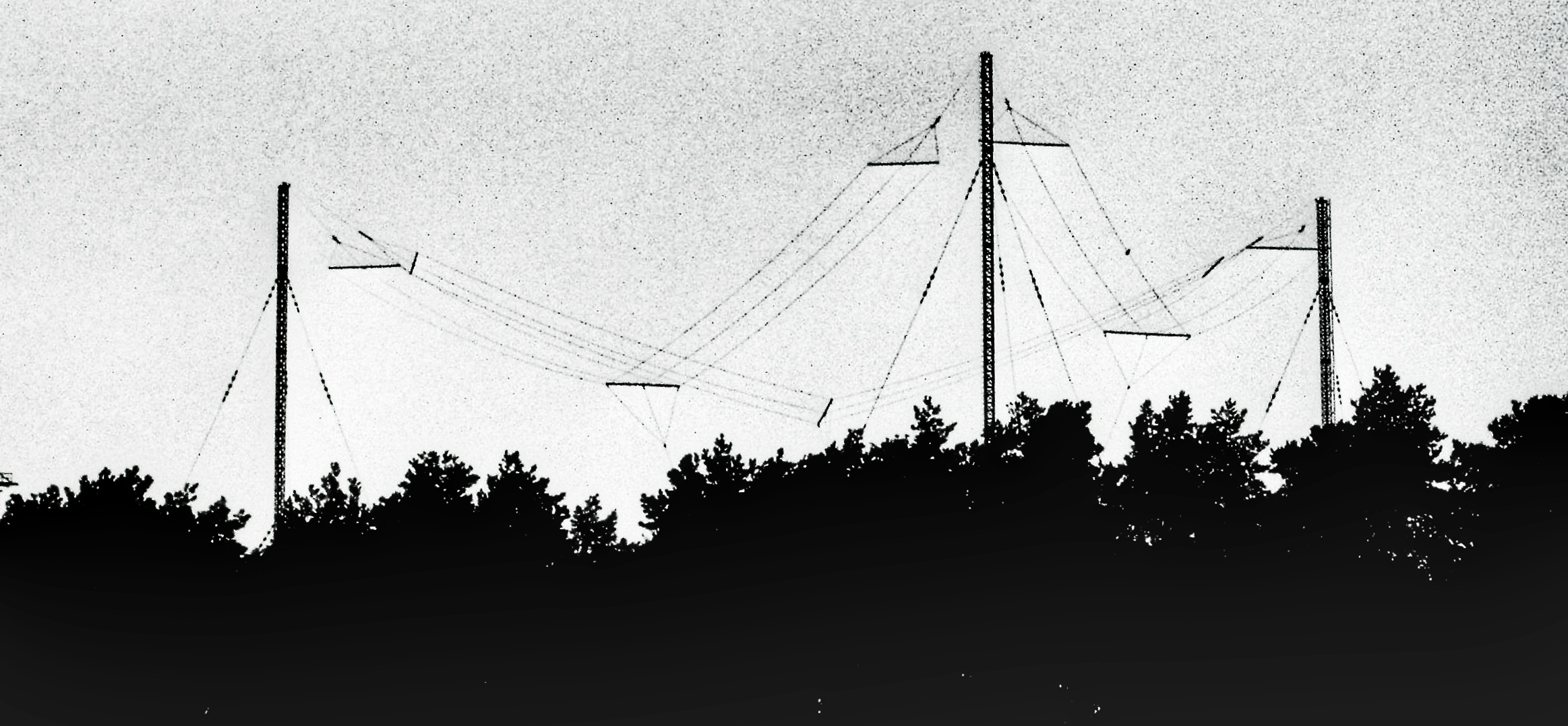 Triangle antenna of Burg transmitter, used for mediumwave transmission